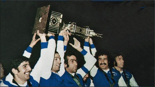 Taj Players triumphing Takht-e-Jamshid Cup, 1974